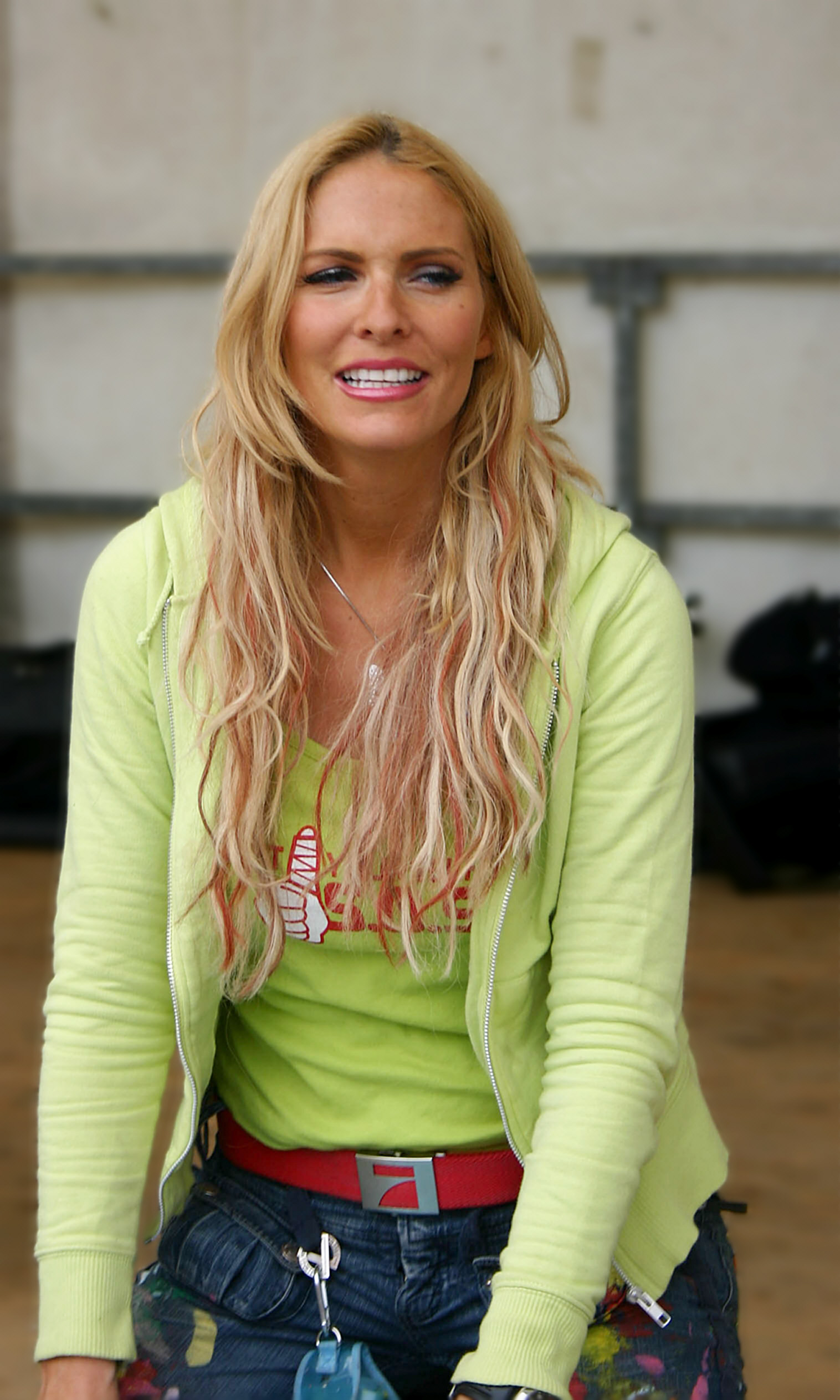 Sonya Kraus (born June 22, 1973) is a German television presenter and former model. Mitwirkung: talk talk talk Fort Boyard – Stars auf Schatzsuche Do it Yourself – S.O.S. Werke: Baustelle Mann – Der ultimative Love-Guide, Reihe: Bastei-Lübbe Taschenbücher, Verlagsgruppe Lübbe, Bergisch Gladbach März 2007, ISBN 978-3404664078. Bearbeitet unter Anleitung von Marcela - besten Dank.